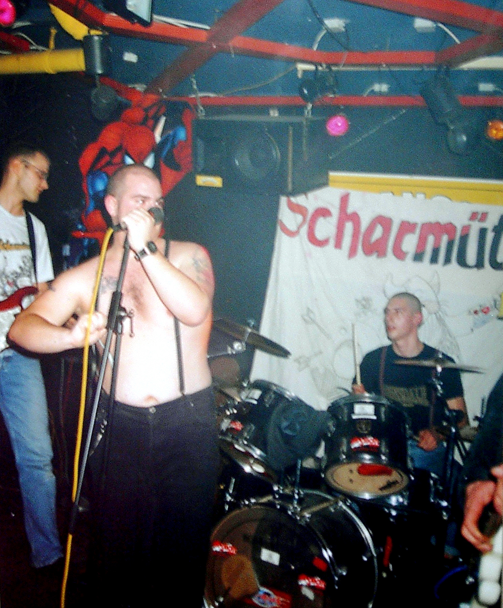 German Oi Punk Band "Scharmützel", 1999, private Archive (own photograph)